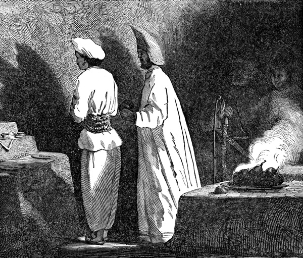 Guebre ceremony in Ateshgah temple in Baku. Azerbaijan